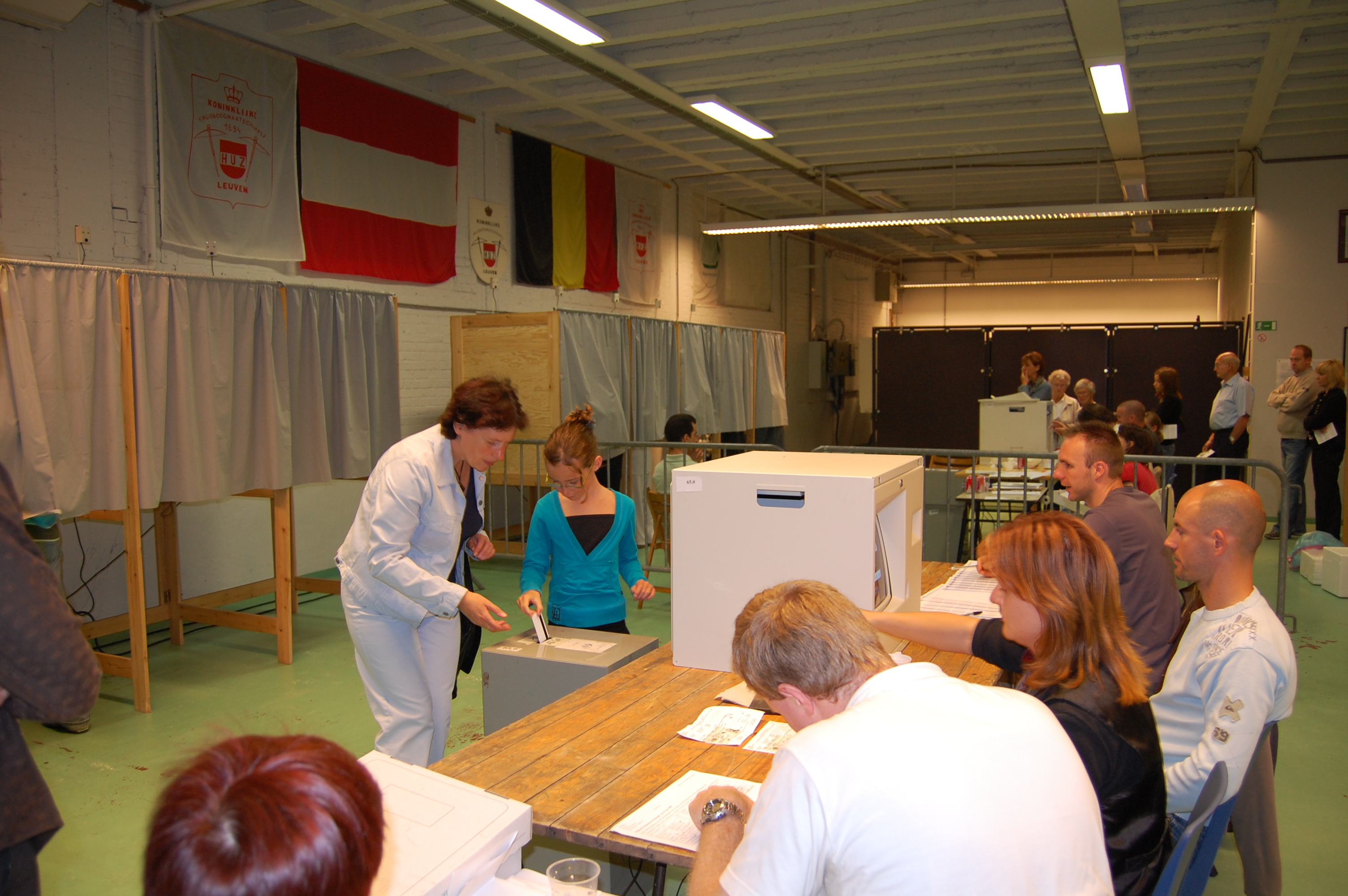 2007 federal elections in Belgium. Picture take in election bureau 65 in Wilsele, Leuven, Vlaams-Brabant, Belgium.